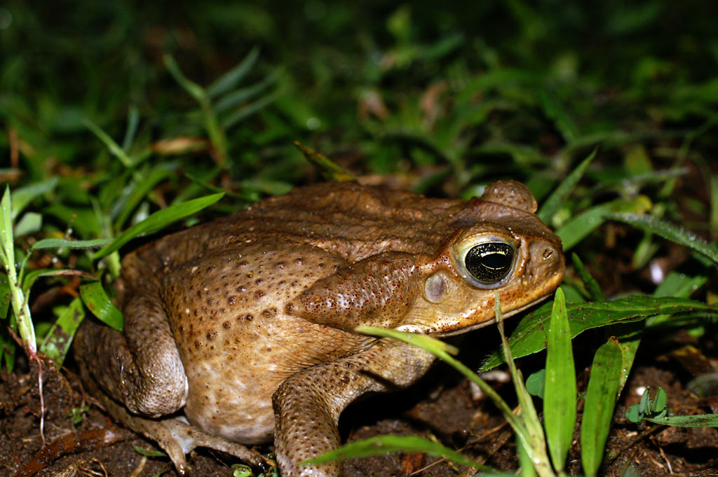 Canetoad